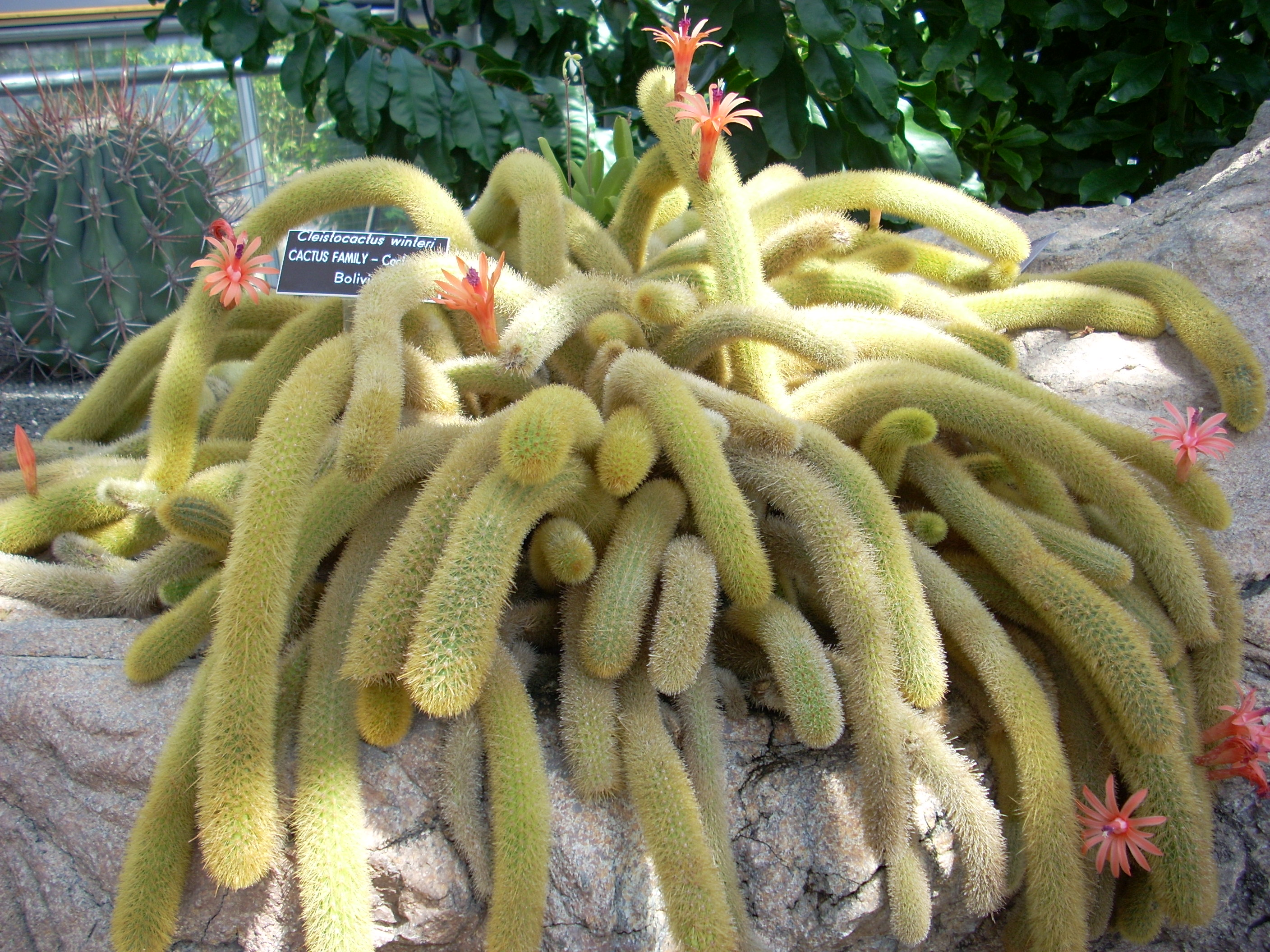 Cleistocactus Winteri at the United States Botanic Gardens, Washington DC